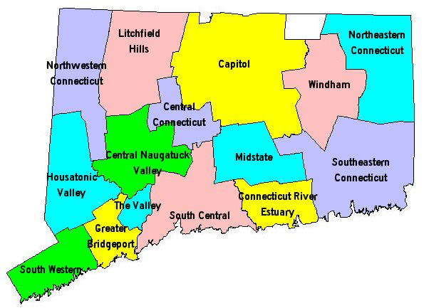 Regions of Connecticut forming the basis for regional councils